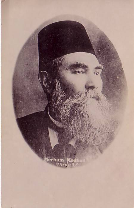 Turkish writer Ahmet Mithat Efendi